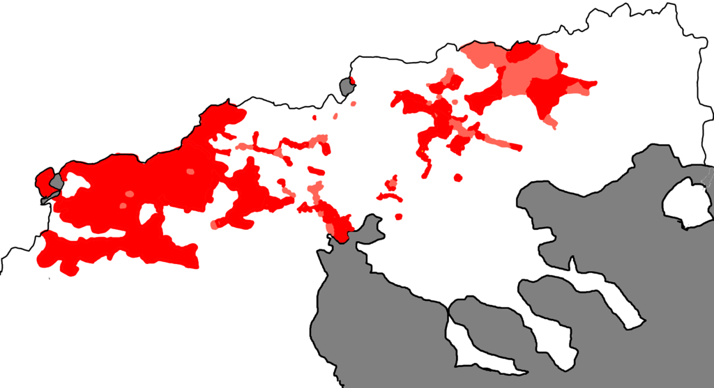 A map showing the distribution of minorities in Greece , or Northern Greece Macedonia area